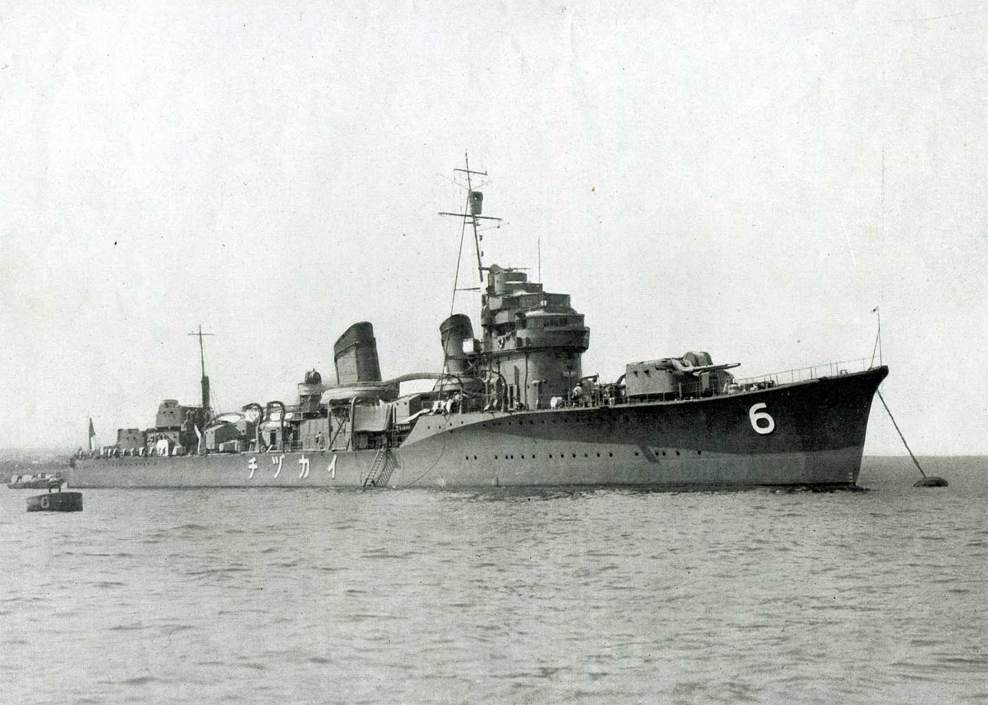 IJN Destroyer Ikazuchi